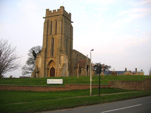 Holy Cross parish church, Bury, Cambridgeshire (formerly Huntingdonshire), seen from the west